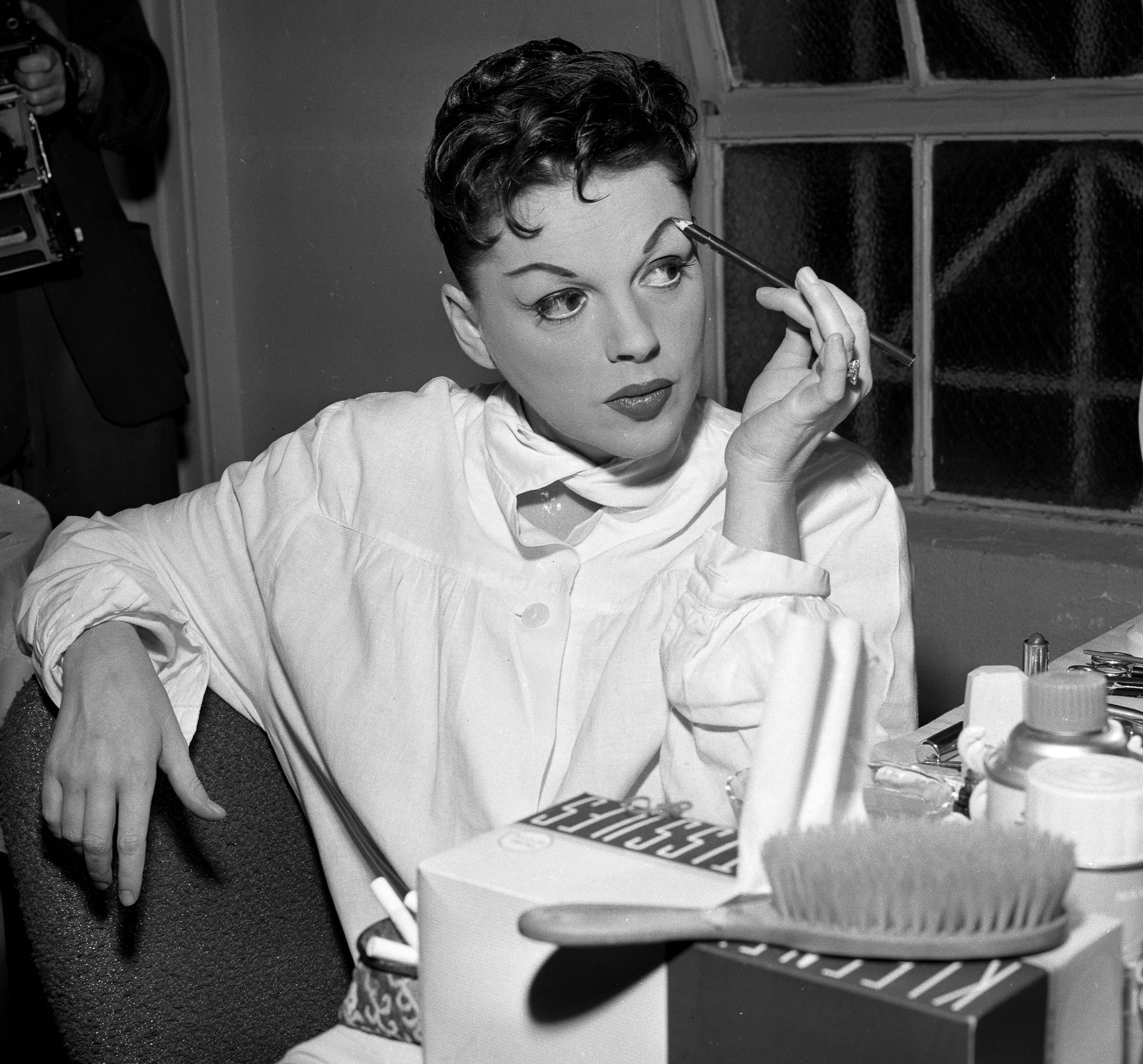 Singer Judy Garland in her dressing room at the Greek Theater. 1957 in Los Angeles, California.